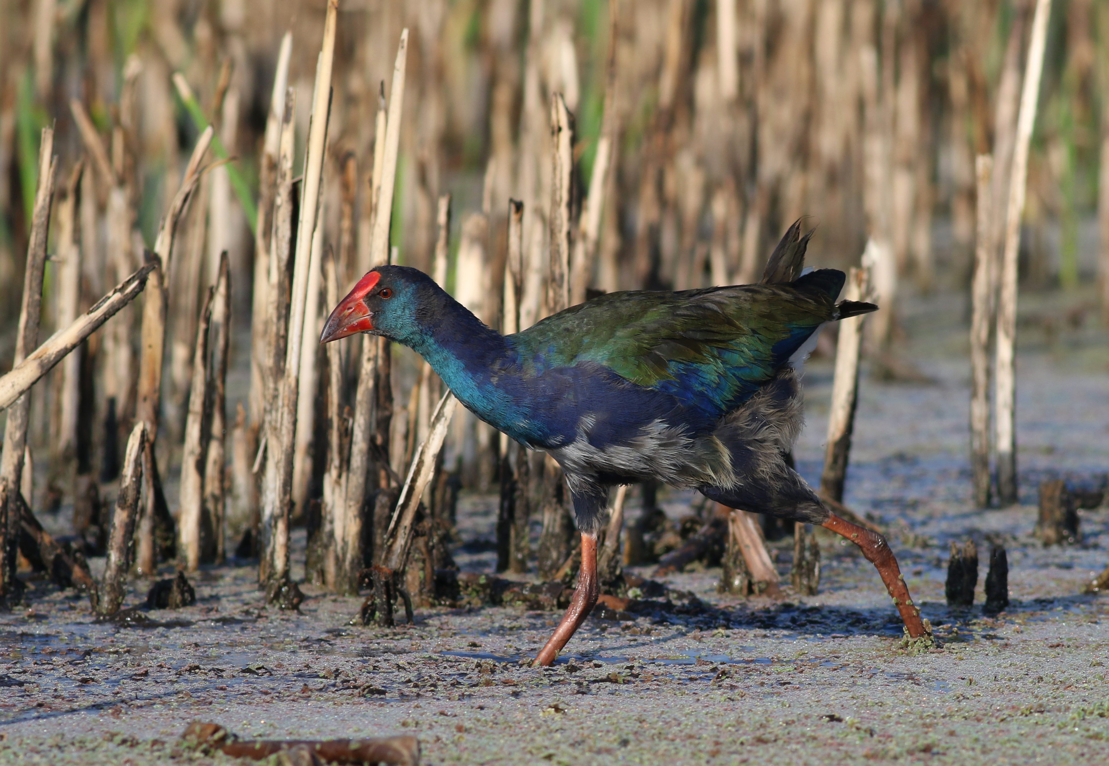 African Purple Swamphen, Porphyrio madagascariensis at Marievale Nature Reserve, Gauteng, South Africa